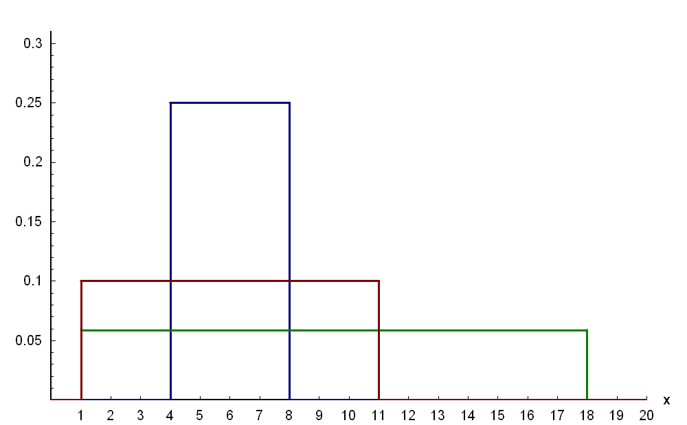 Uniform Distribution